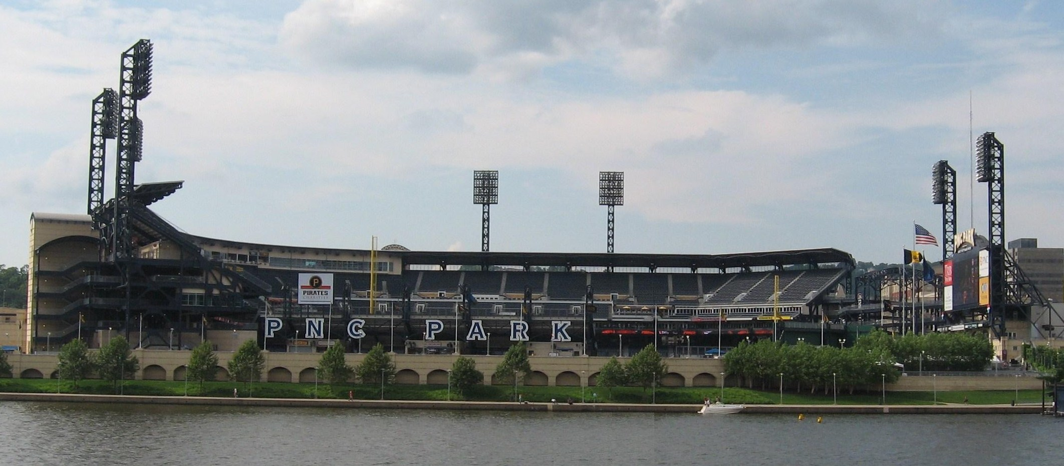 PNC Park in Pittsburgh, as viewed from Downtown Pittsburgh 40°26′49.4″N 80°0′22.2″W / 40.447056°N 80.006167°W